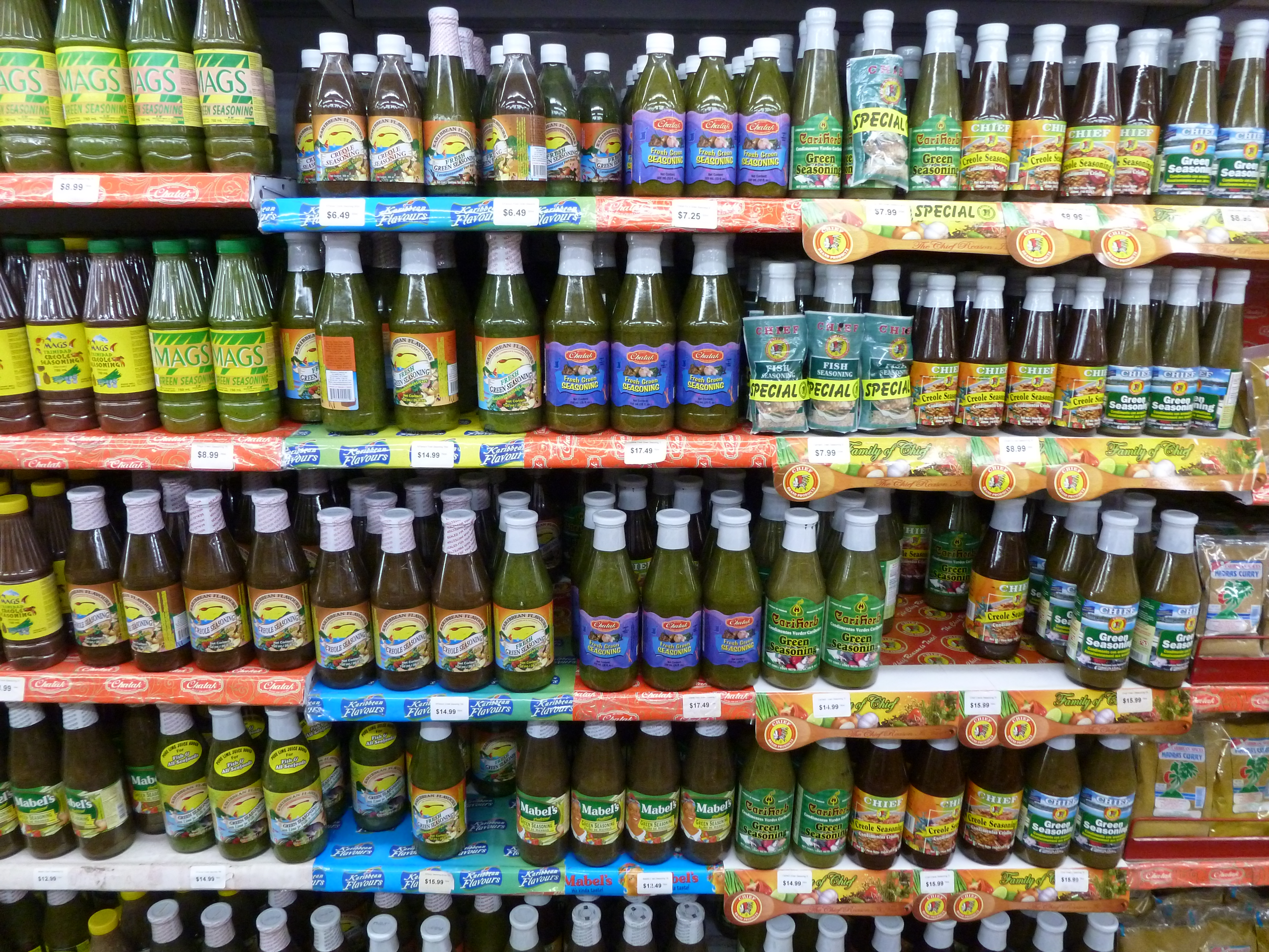 A wide range of bottled seasonings is available in supermarkets.